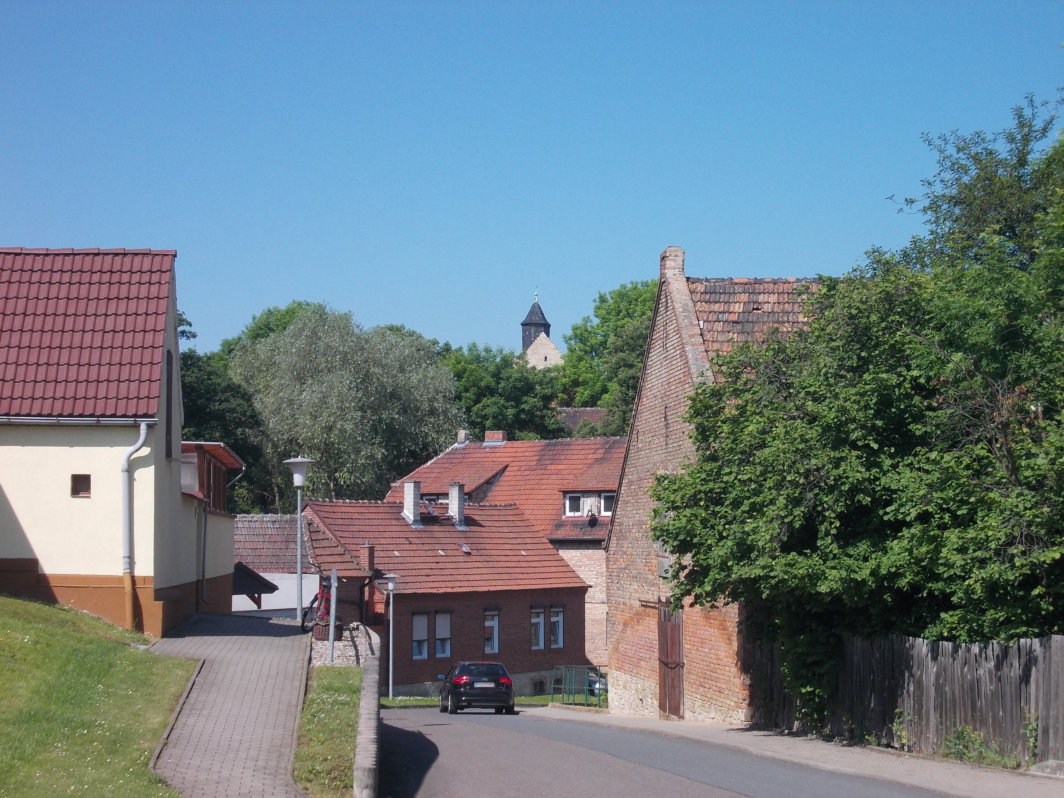 Clara-Zetkin-Strasse in Alberstedt (Farnstädt, district: Saalekreis, Saxony-Anhalt)